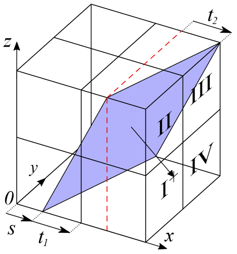 Иллюстрация типизации плоскостей в пространстве.